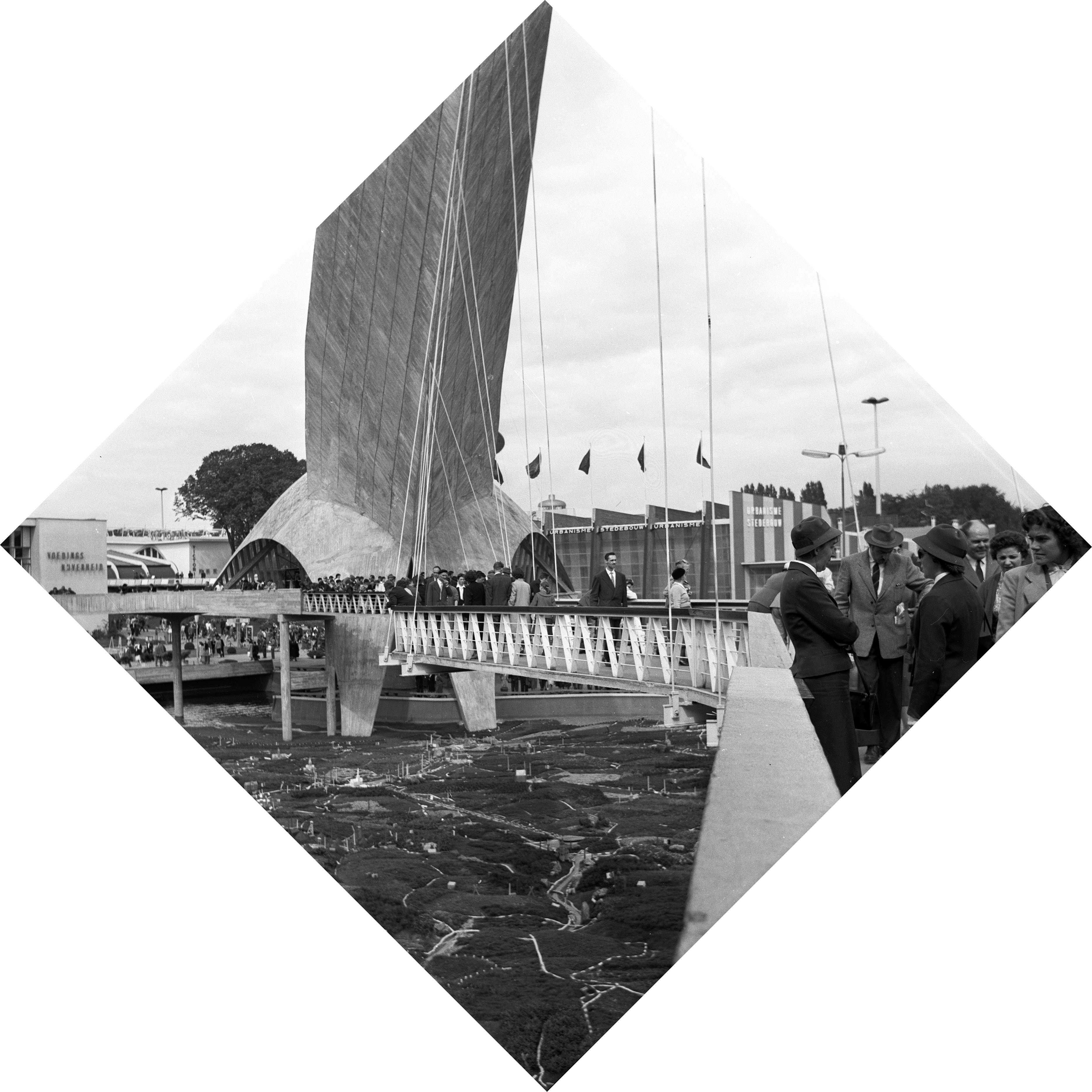 Expo 1958 Belgium in scale 1:3500